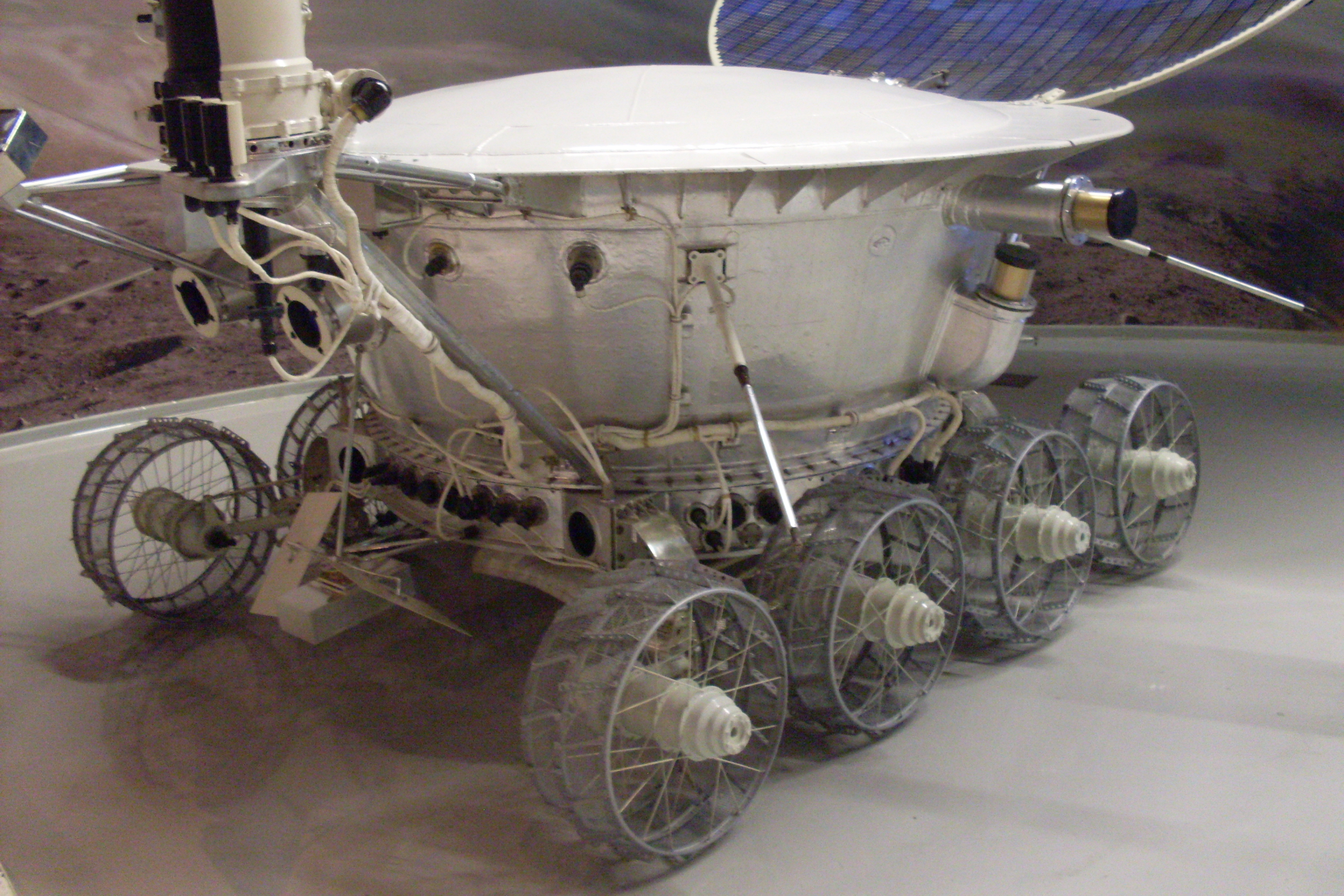 Mockup (1:1) of the moon rover Lunokhod 1 at Memorial Museum of Astronautics (Moscow).